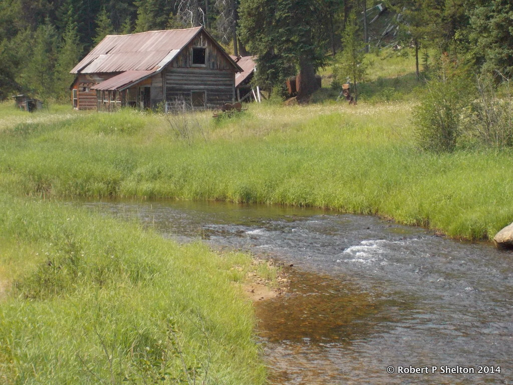 Milling for gold